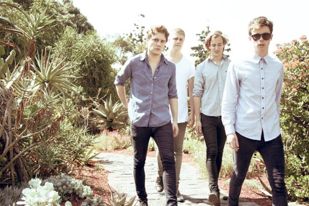 Photo I took of The Holidays in a cactus garden.